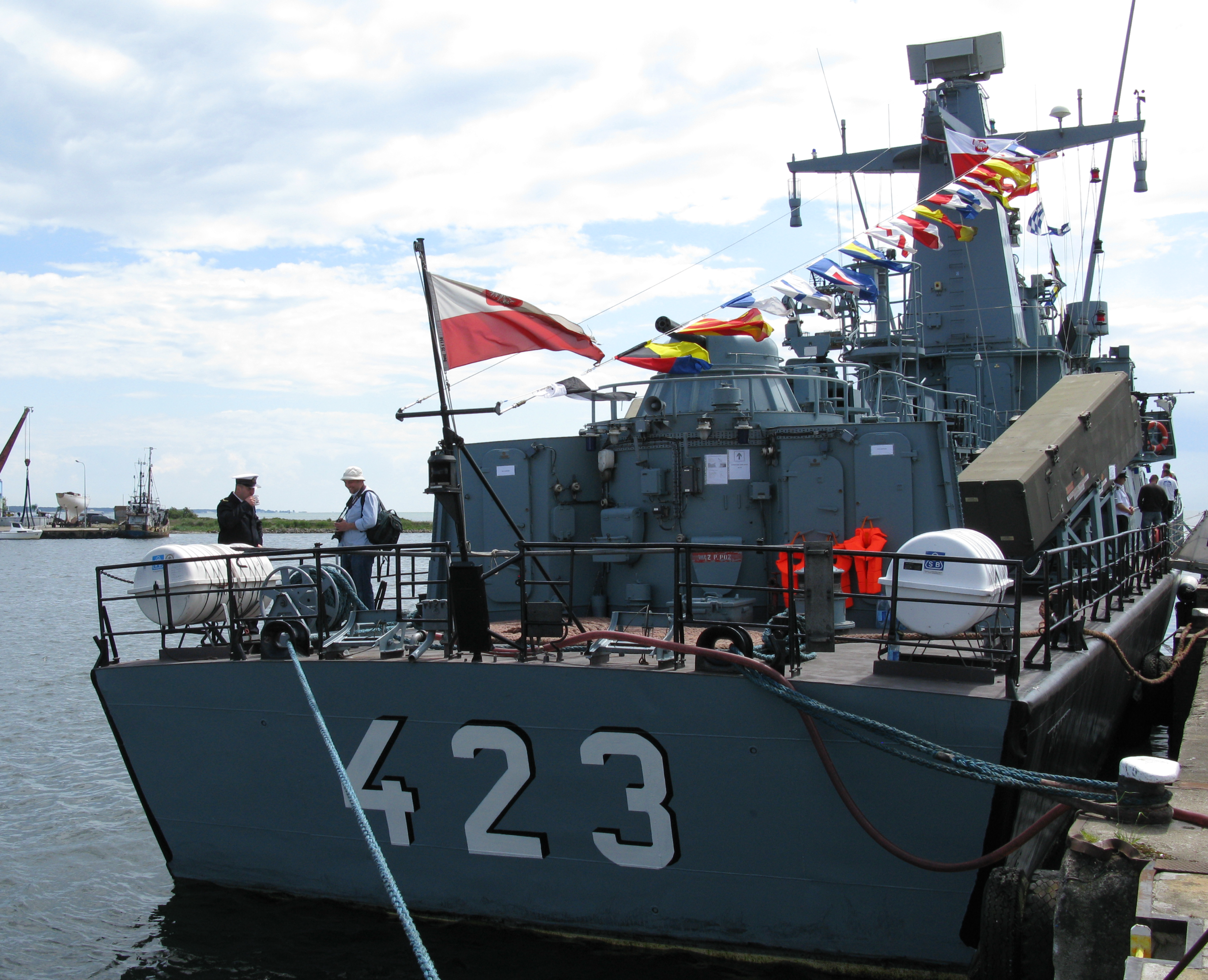 Tactical number on Polish Corvette ORP Grom